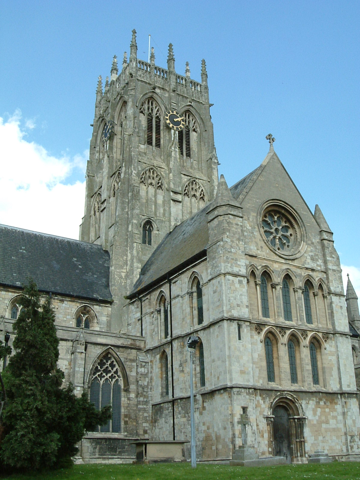 St Augustine's Church, Hedon, East Riding of Yorkshire, England.Taken by James@hoprove, May 2005.